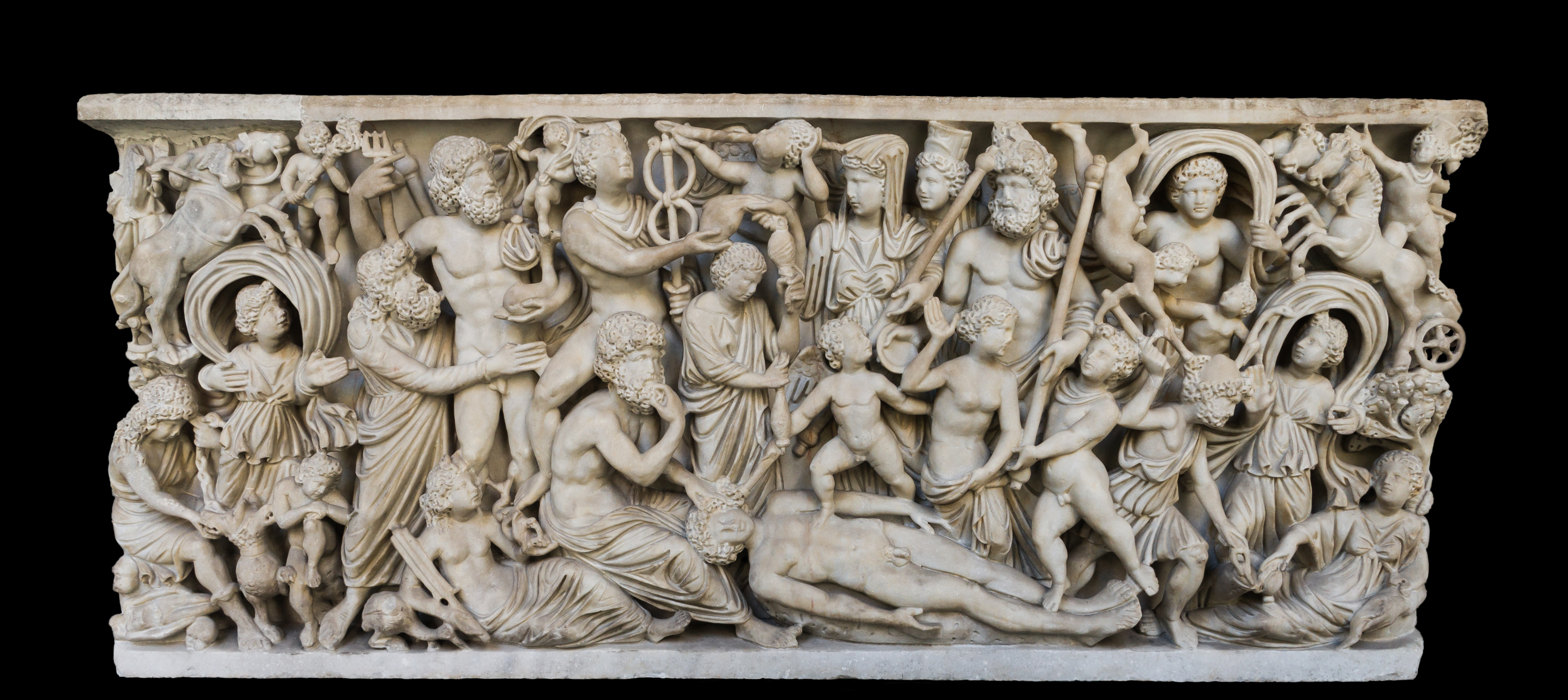 "Creation of the Man" by Prometheus, 4th-c.CE roman sarcophagus. Marble.